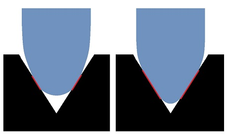 A diagram comparing two common types of styli. Spherical (left), Elliptical (right). Note the difference in contact area marked in red. The elliptical stylus allows for more groove contact area which increases fidelity, whereas the spherical makes less contact with the grove and generates less fidelity.